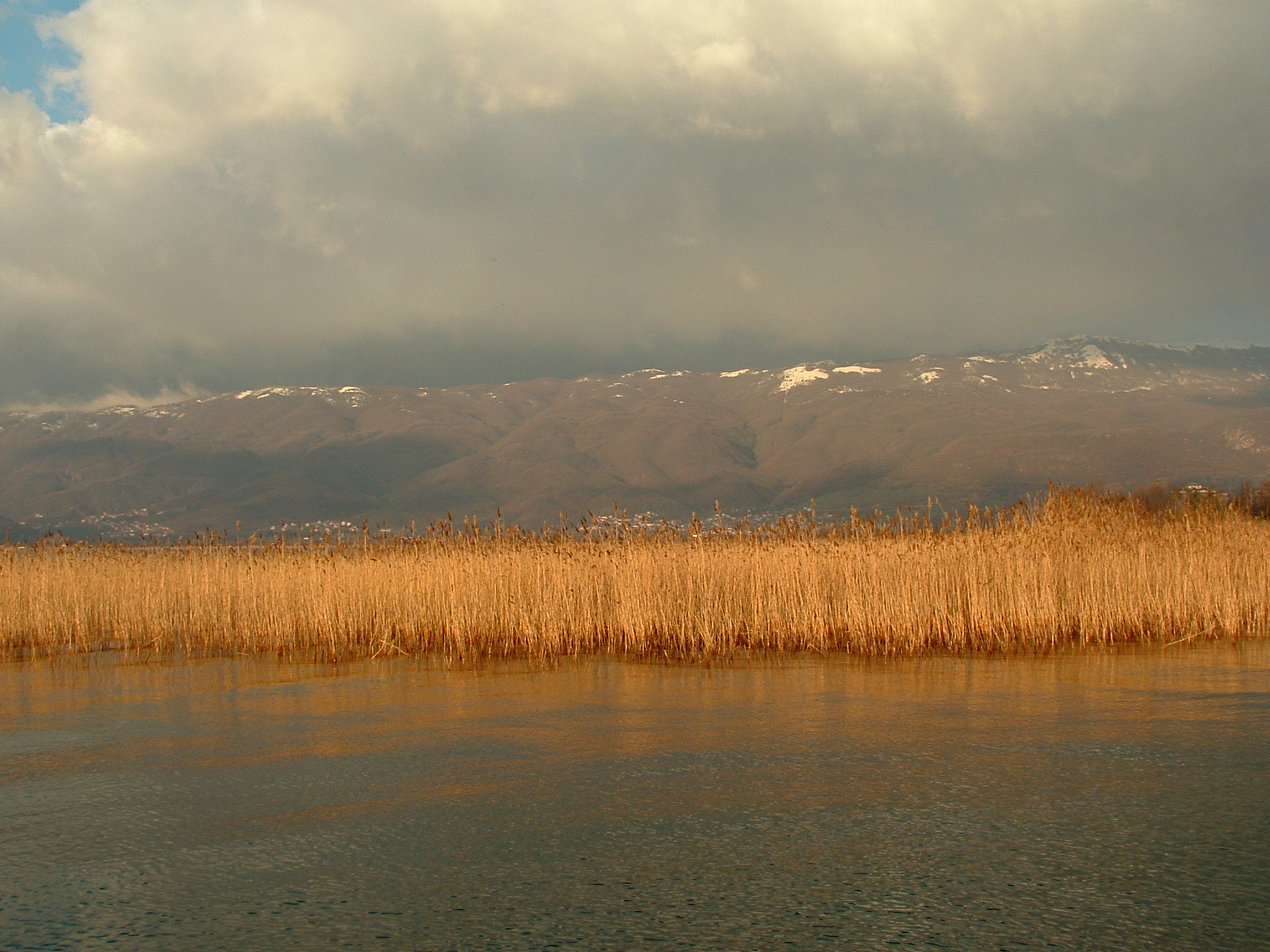 Lake Ohrid at Struga, Republic of Macedonia, March 2007